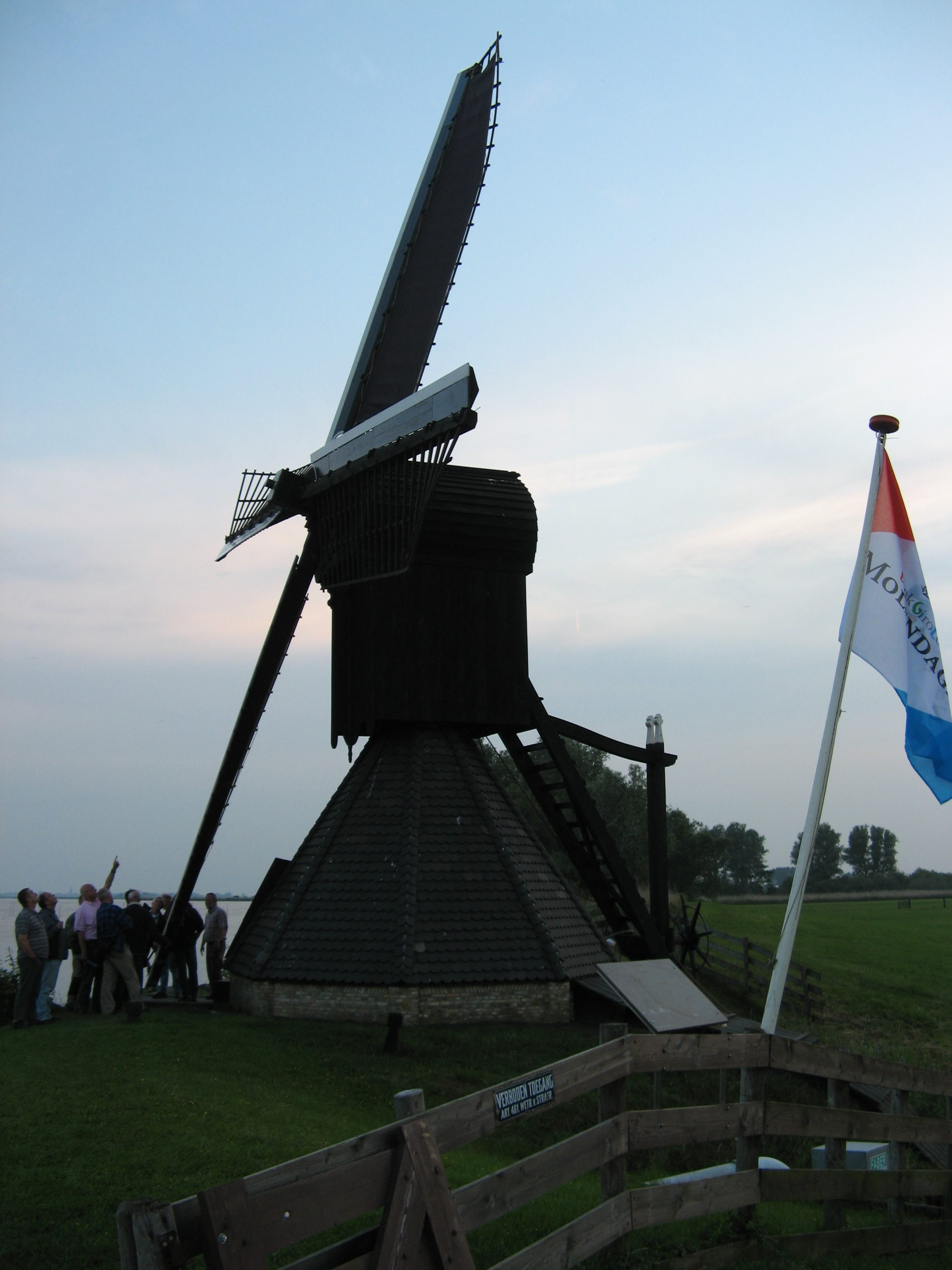 Drainage mill (spinnekop) Dorismooltsje, Oudega